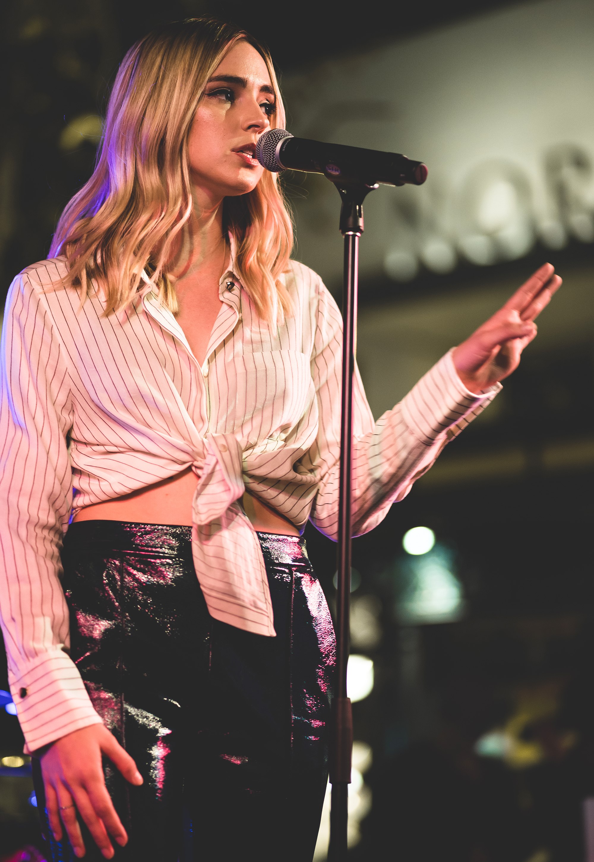 Katelyn Tarver performing live at The Grove in Los Angeles, California, on Thursday, October 11, 2018. Part of the "Playlisted" concert series presented by Nylon Magazine and sponsored by Citi.